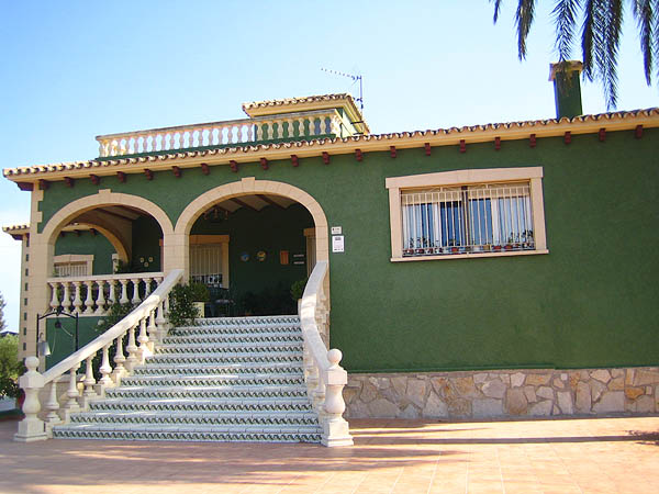 Chalet in Beniarbeig, county Marina Alta, Region of Valencia, Spain